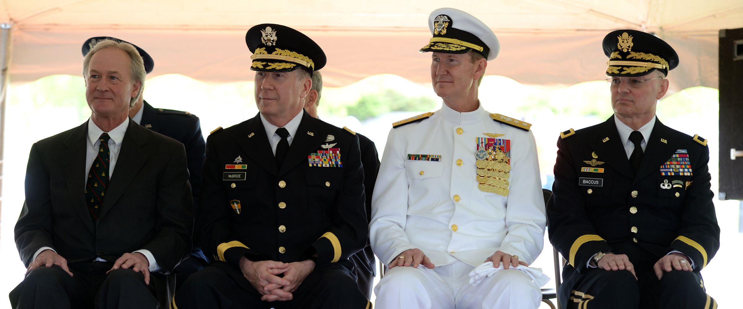 Rhode Island Gov. Lincoln Chafee, Army Maj. Gen. Kevin McBride, Adjutant General of Rhode Island and Commanding General of the Rhode Island National Guard, Rear Adm. Walter E. “Ted” Carter Jr., president, U.S. Naval War College in Newport, Rhode Island, and retired Army Brig. Gen. Rick Braccus, participate in the 40th Annual Memorial Day Ceremony at Rhode Island Veterans Memorial Cemetery in Exeter, Rhode Island.